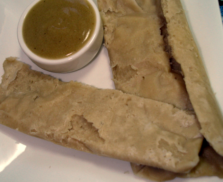 Knanaya Jewish Food